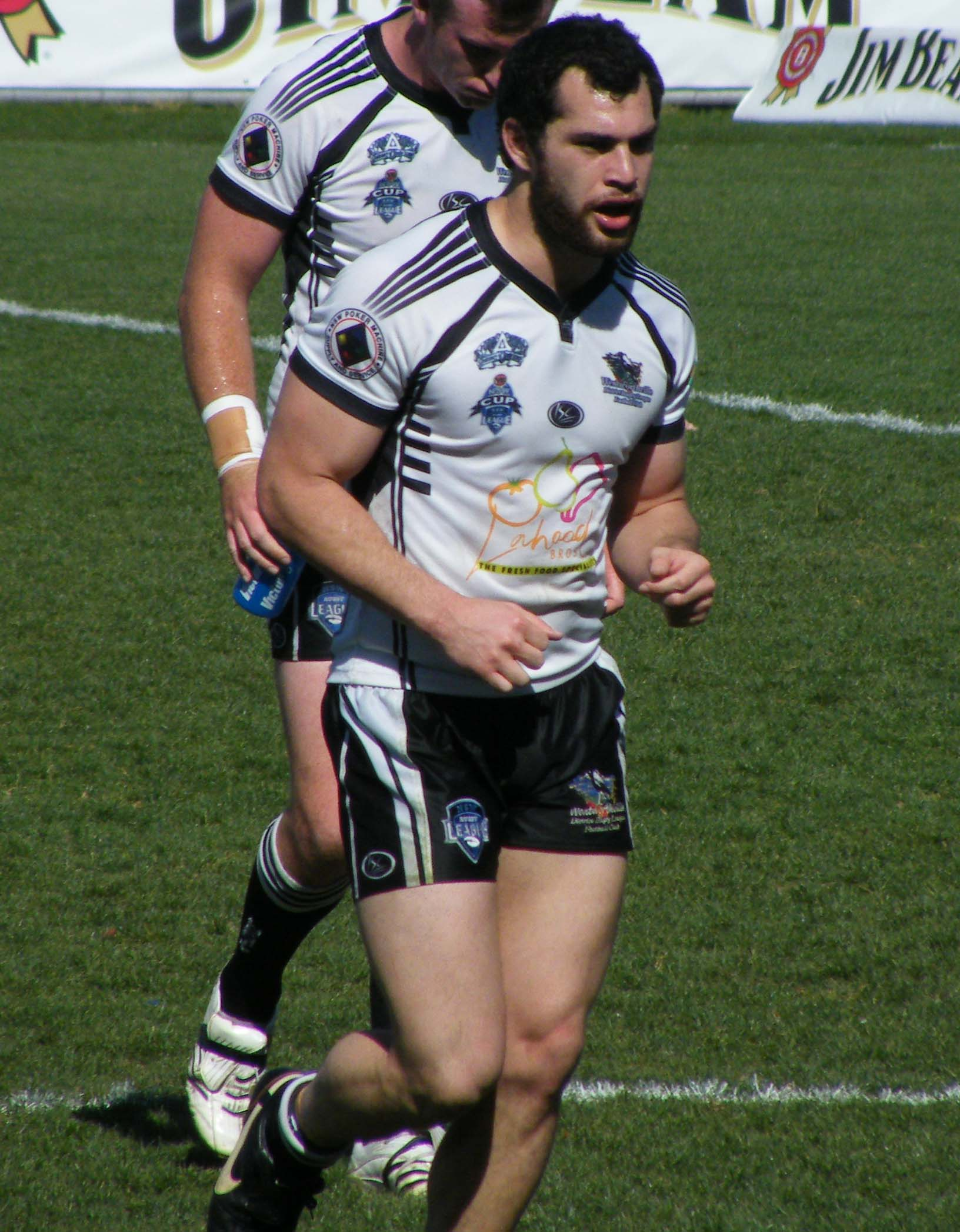 Wentworthville Winger